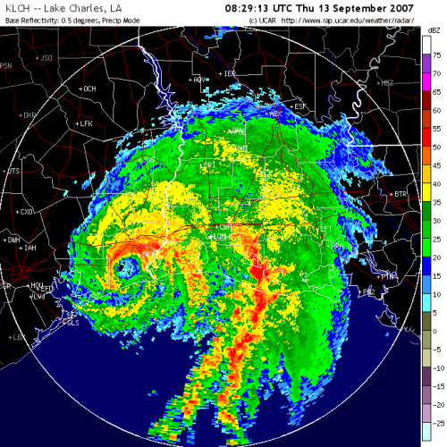 Radar image of Hurricane Humberto making landfall